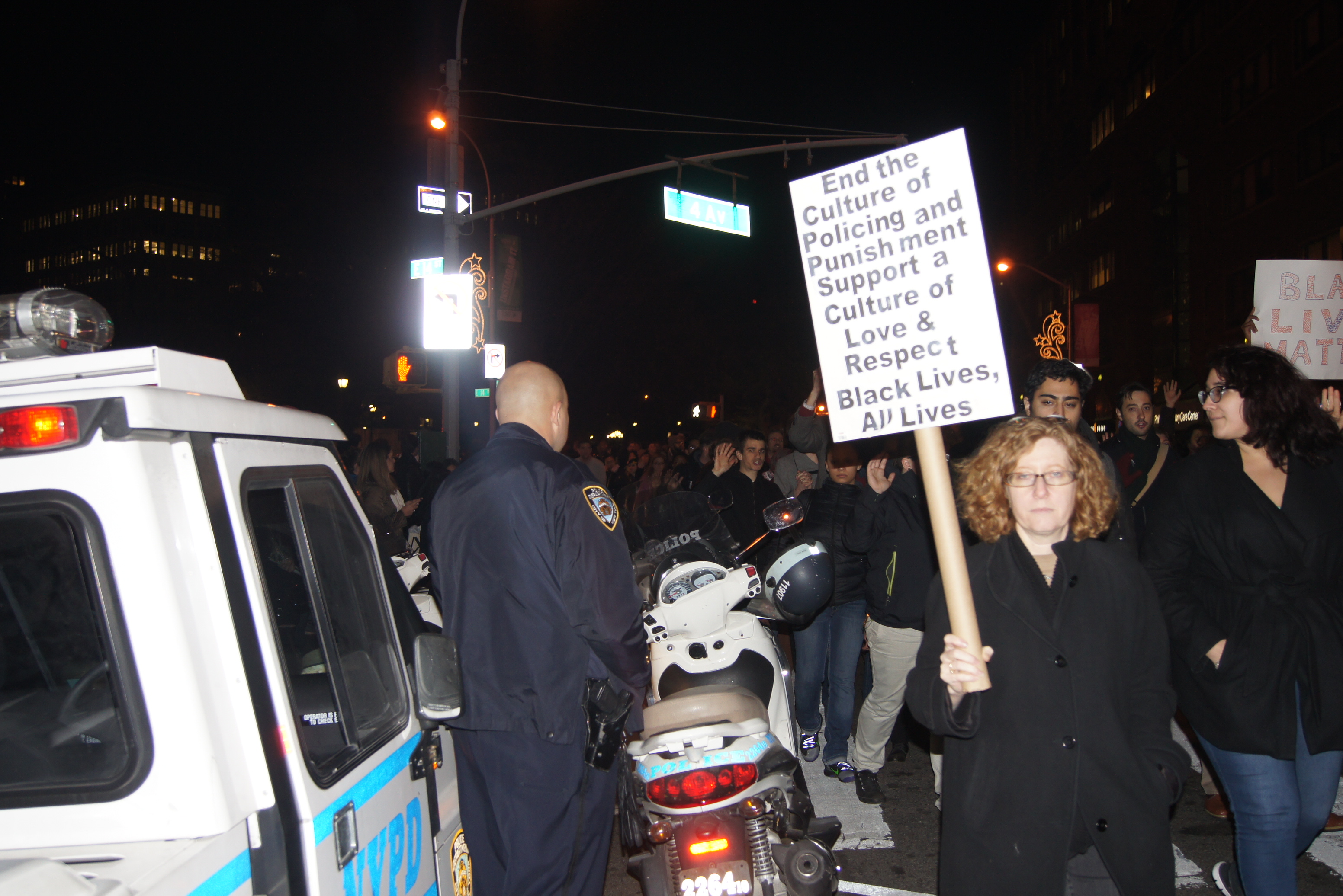 This image is from the protests surrounding the Shooting of Michael Brown and other related events. It was taken in New York City.